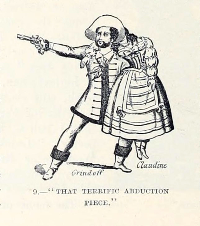 Skelt illustration from A penny plain and twopence coloured by R.L. Stevenson